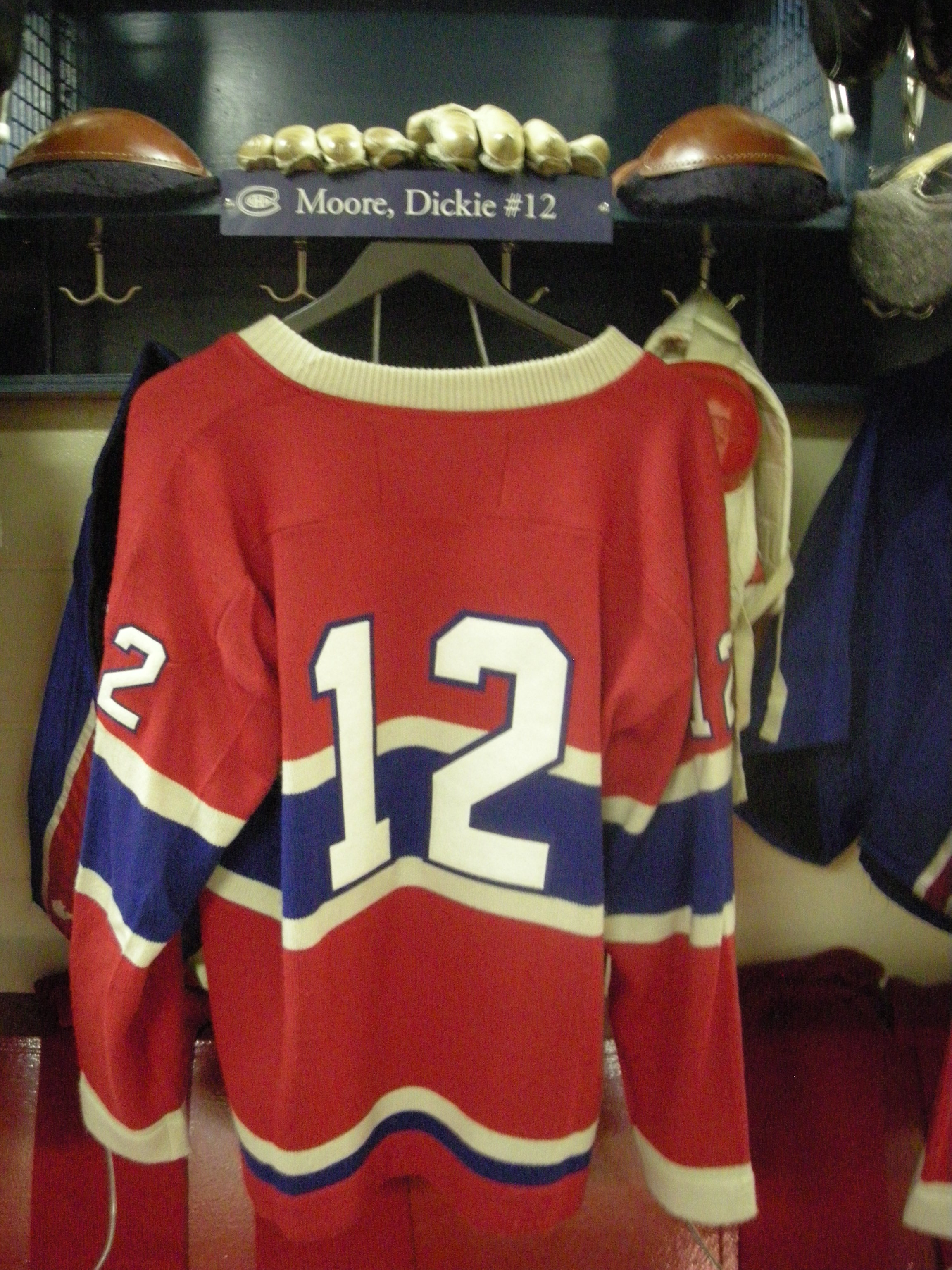 Dickie Moore's jersey in the replica of the Montreal Canadiens dressing room at the Hockey Hall of Fame in Toronto, Ontario (Canada).